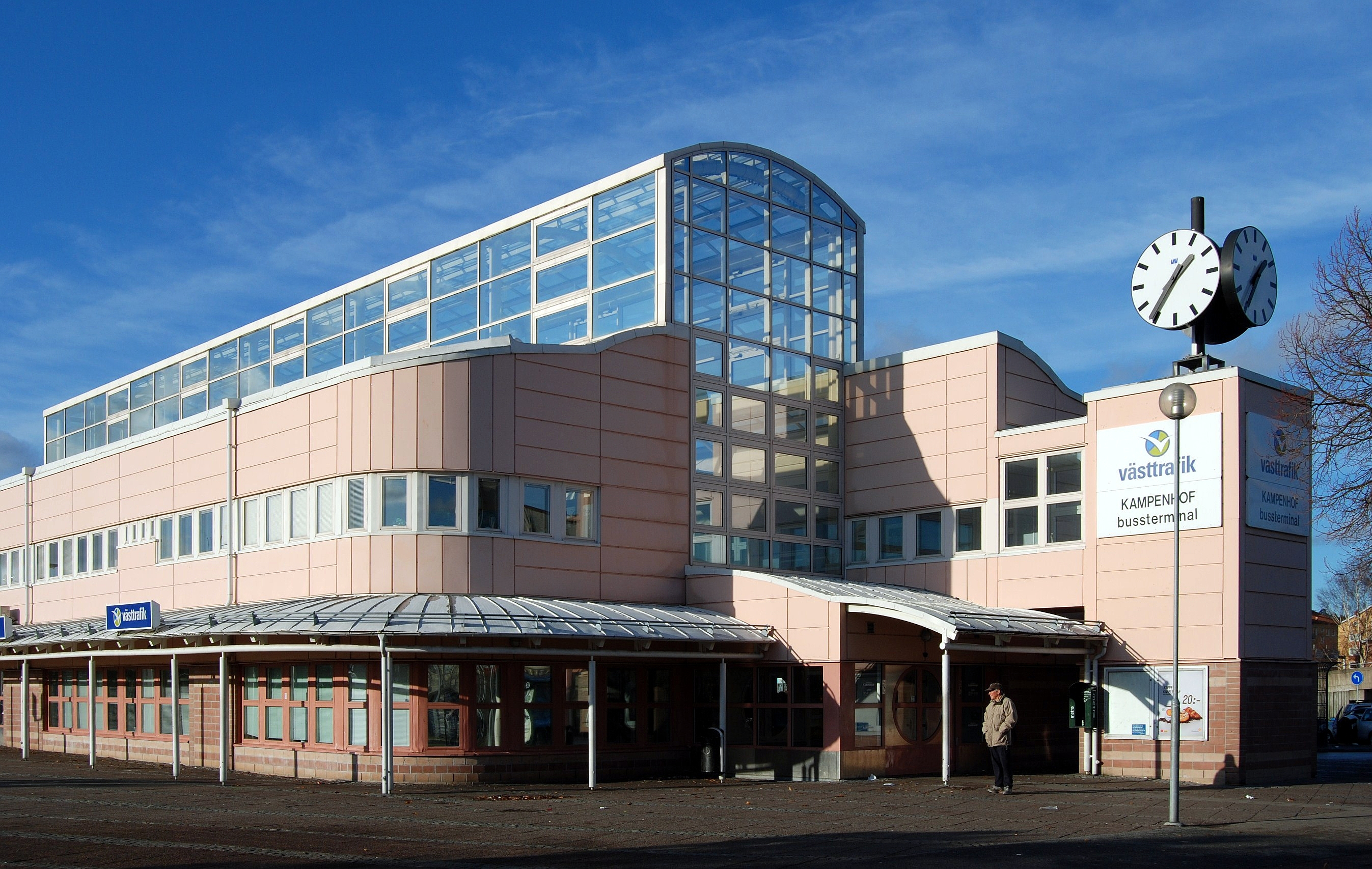 The bus terminal Kampenhof in Uddevalla, Bohuslän, Västra Götaland County, Sweden